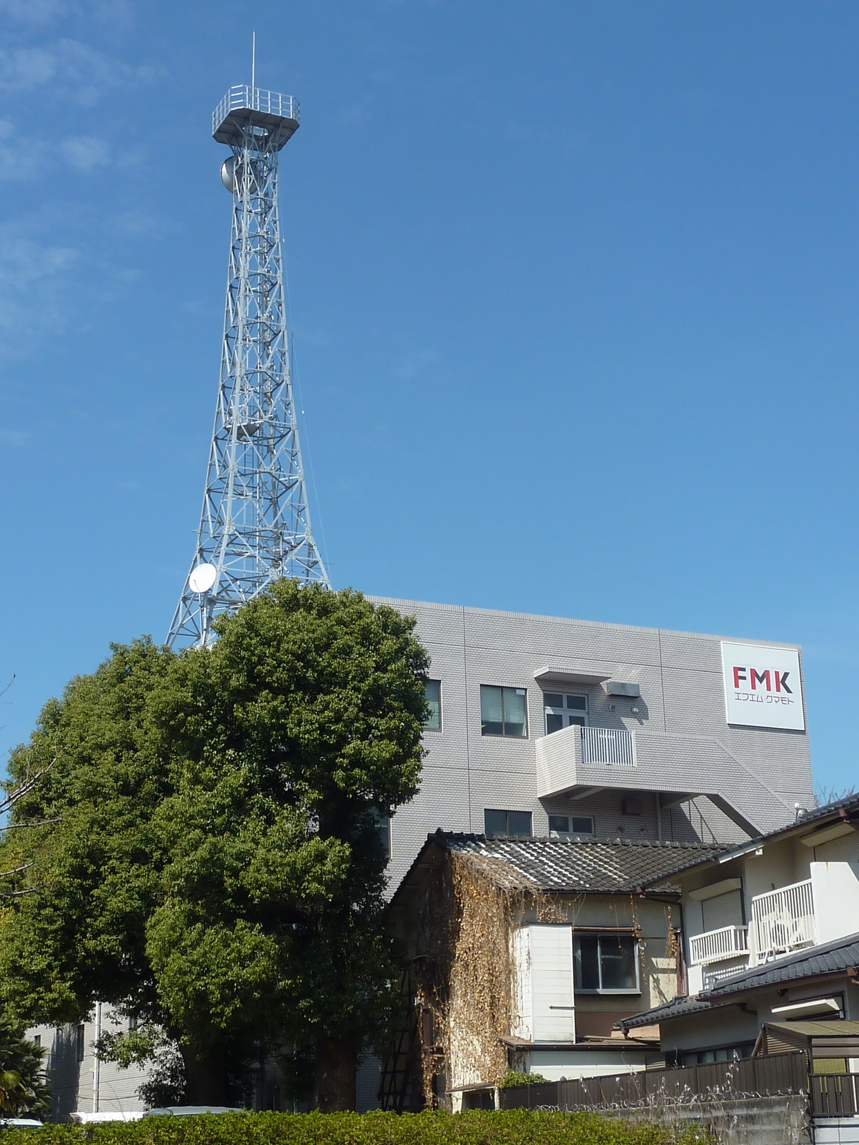 FM Kumamoto (FMK, JOSU-FM) Studio